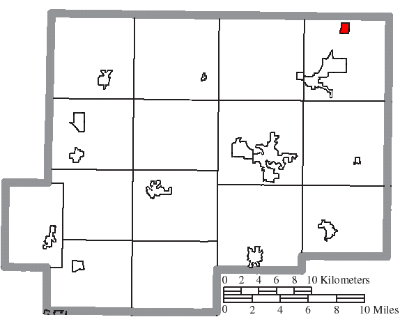 Map of the municipal and township boundaries of Putnam County, Ohio, United States, as of the 2000 census, with the location of the village of Belmore highlighted. Township borders are shown only in unincorporated areas in order to differentiate incorporated and unincorporated areas more clearly.